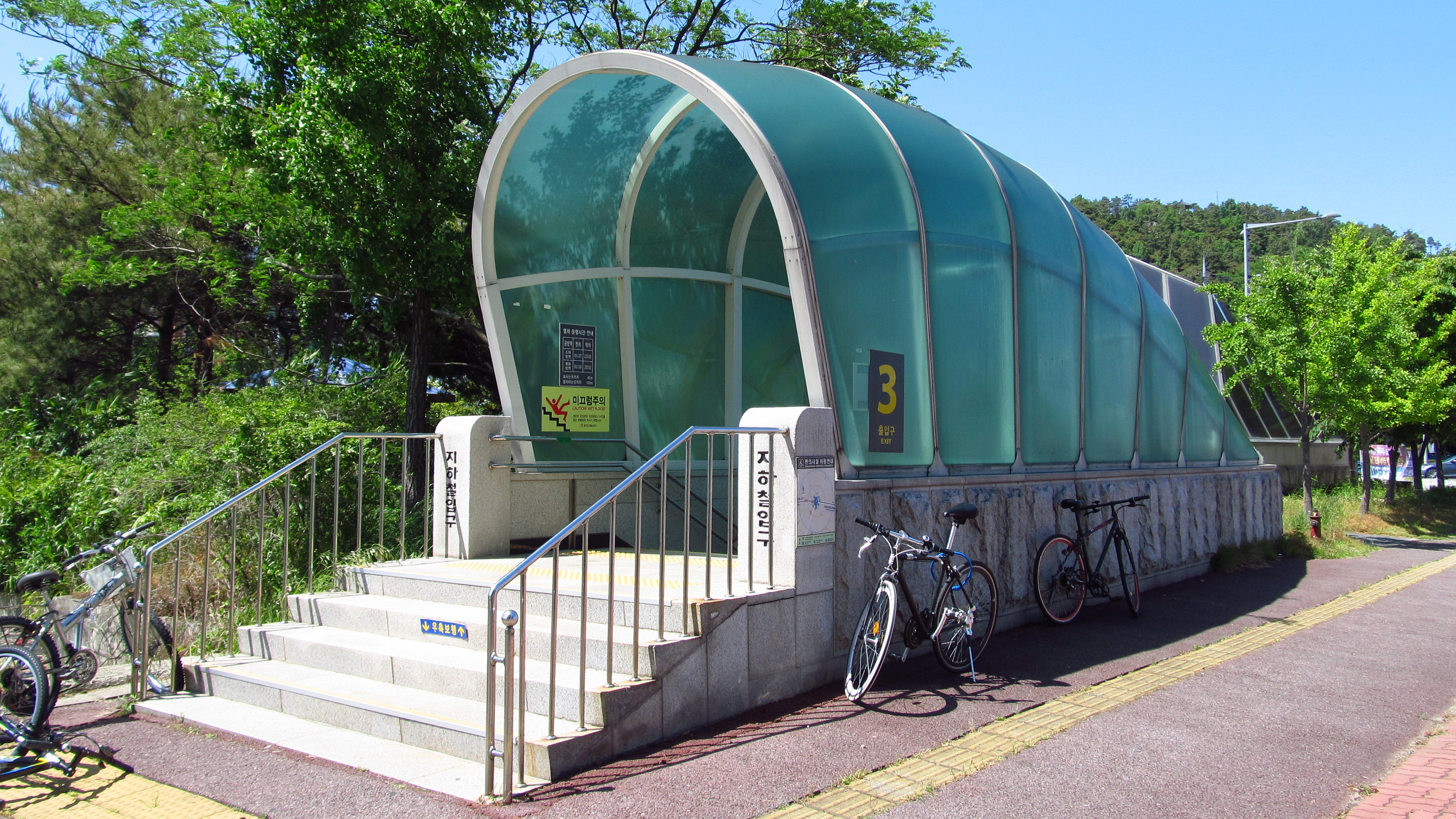 The no.3 entrance to Airport Station on Gwangju Metro Line 1 in Gwangsan-gu, Gwangju, Republic of Korea(South Korea)